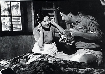 Hideko Takamine and Keiju Kobayashi in 1961 Japanese movie Na mo naku mazushiku utsukushiku